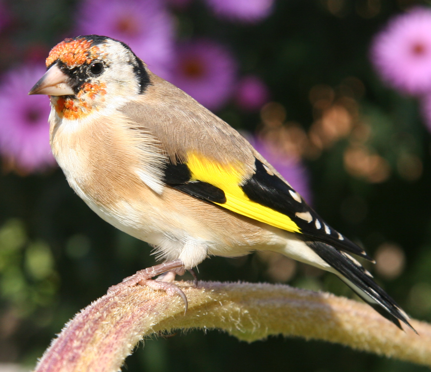 Picture of a goldfinch taken in Constance/Germany on september 24, 2005. Photographer: Armin Maerz, more information in EXIF-Data of picture.